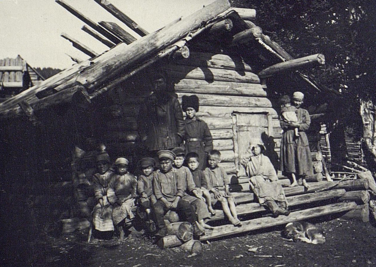 Family of the Shors. Photo was made in 1927 by the expedition of the Soviet Academy of Scienses